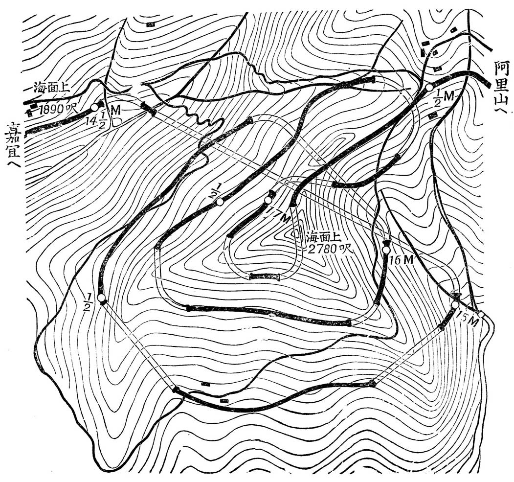 Plan of a loop in Alishan Forest Railway in Taiwan.